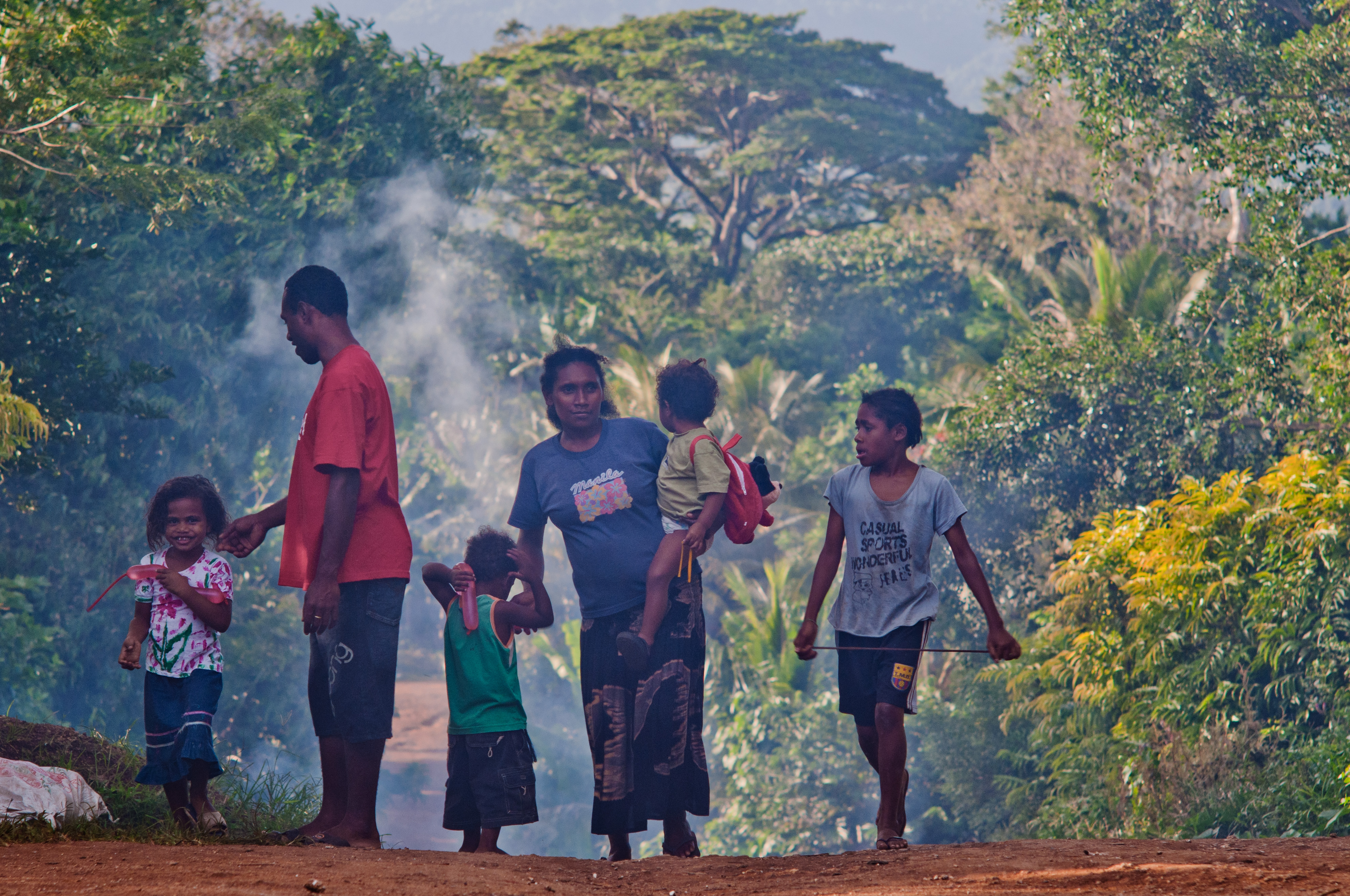 Family